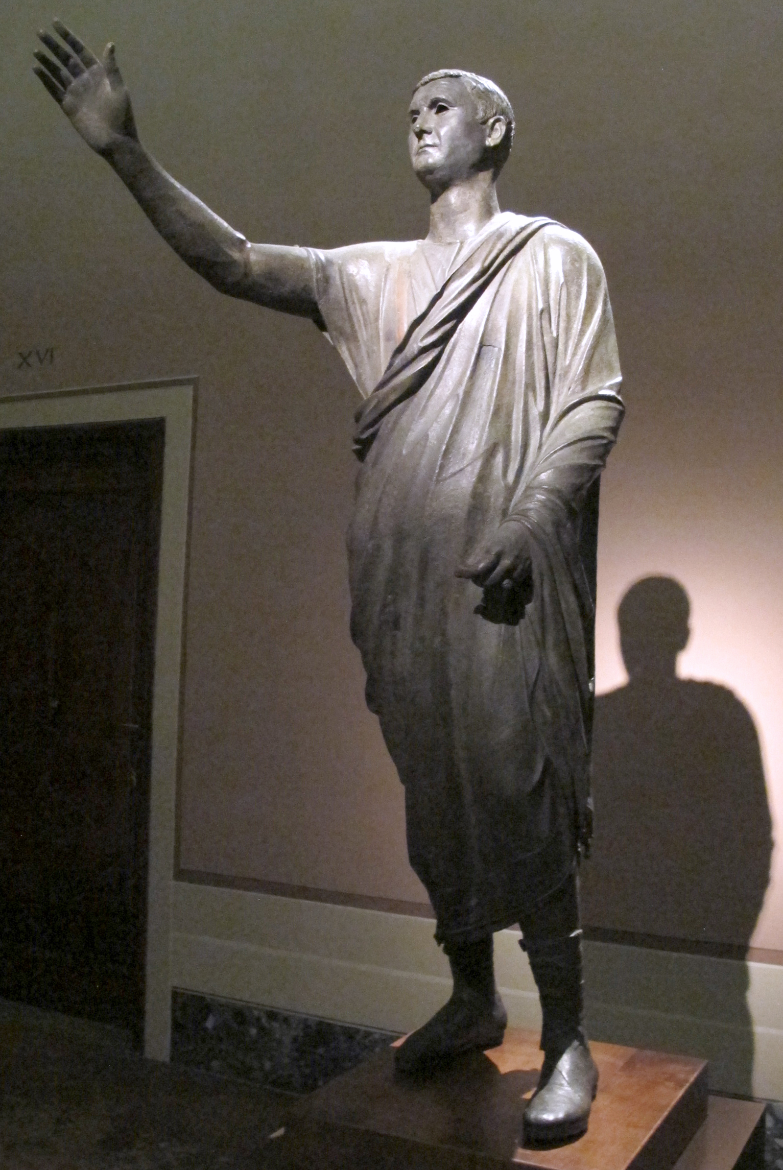 Aule Metele is a Romano-Etruscan work in the Roman style and depicts an Etruscan man wearing a short Roman toga and footwear. His right arm is raised to indicate that he is an orator addressing the public. An inscription on the hem of his toga gives his name and parentage.